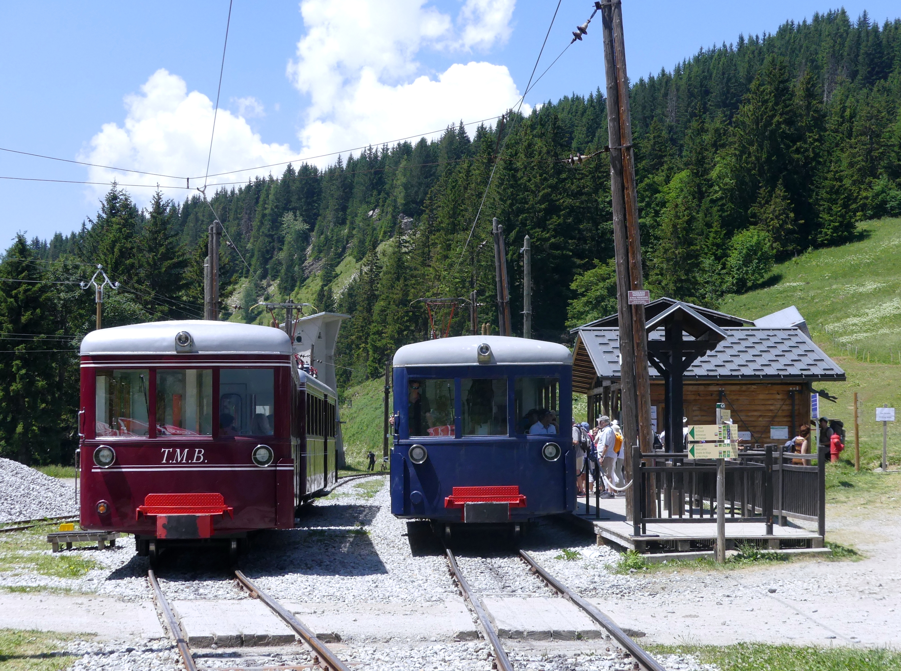 Sight of Jeanne and Marie locomotives of Tramway du Mont-Blanc (TMB) touristic rack railway to the Mont-Blanc, stopped at Col de Voza station in Haute-Savoie, France.